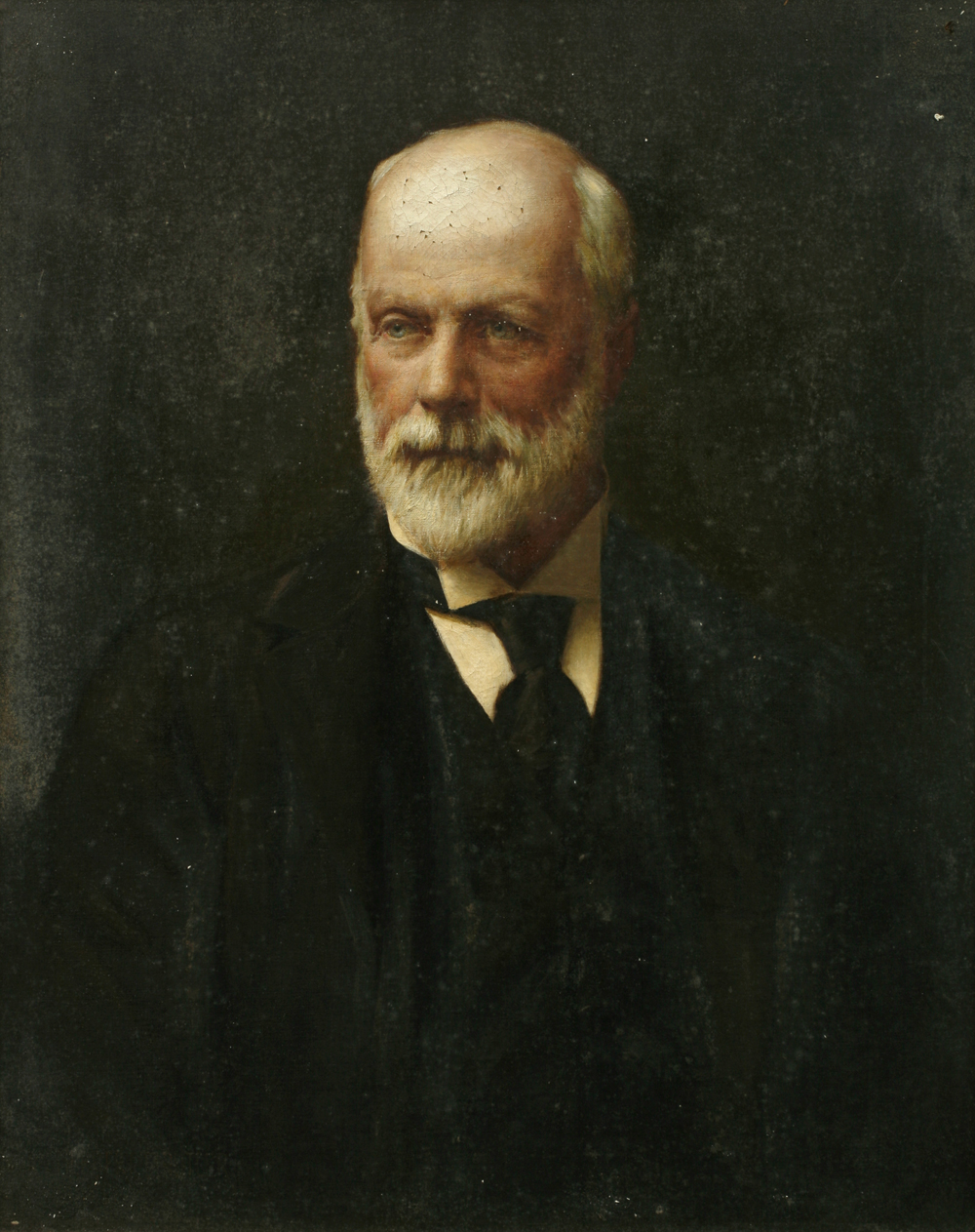 Evelyn William Rashleigh (1850-1926), of Stoketon, Saltash, Cornwall, younger son of Jonathan Rashleigh (1820-1905) of Menabilly, Cornwall. (Burke's Genealogical and Heraldic History of the Landed Gentry, 15th Edition, ed. Pirie-Gordon, H., London, 1937, pp. 1891–3, Rashleigh of Menabilly) Oil on canvas, 71 x 59 cm, Collection of Royal Institution of Cornwall, displayed in Royal Cornwall Museum